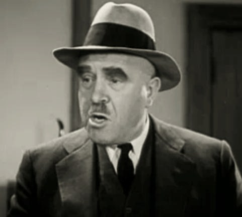 Fred Kelsey in Danger Ahead (1935) - cropped screenshot.